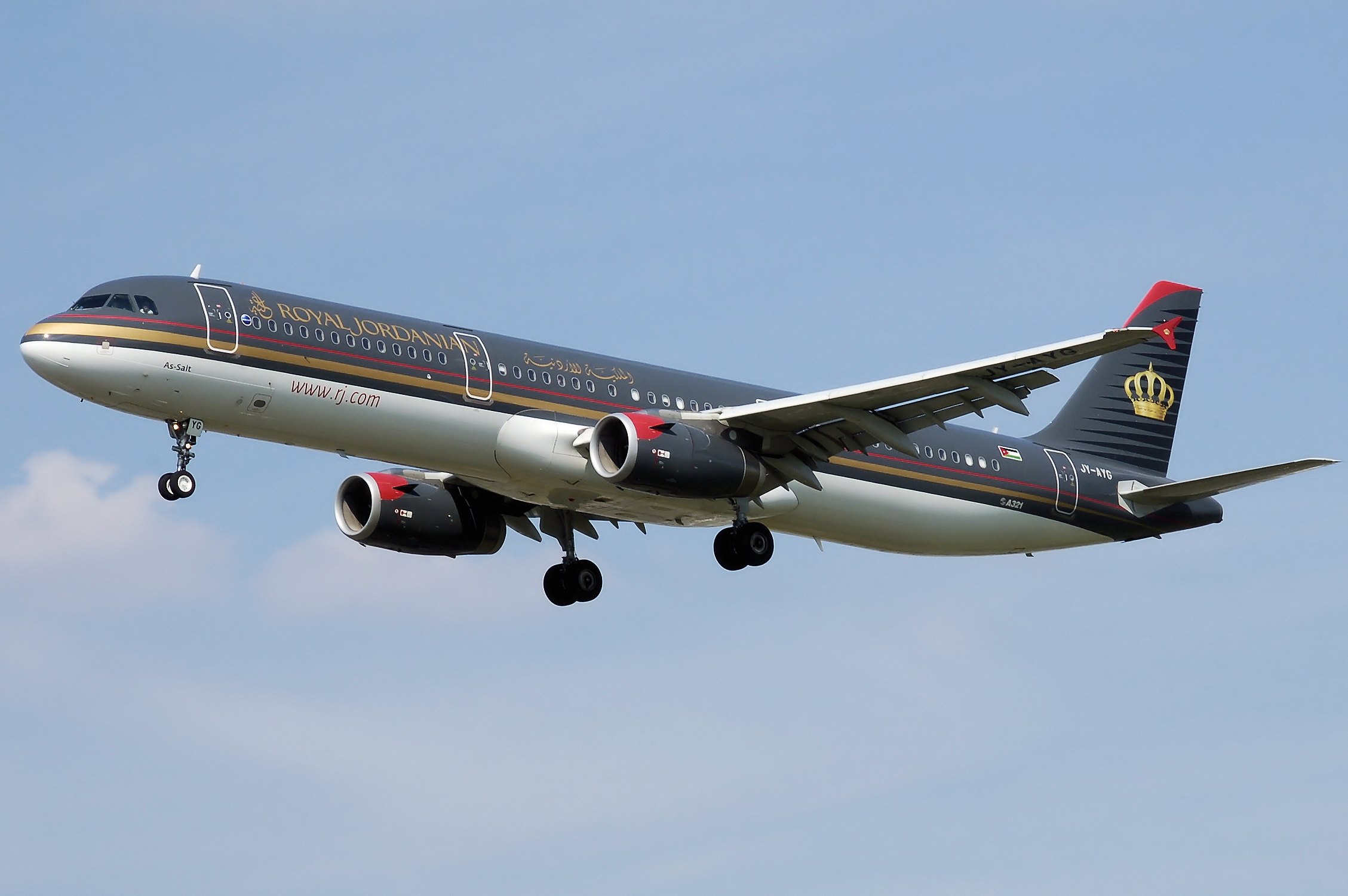 Royal Jordanian Airbus A321-200 (JY-AYG) landing at London Heathrow Airport.